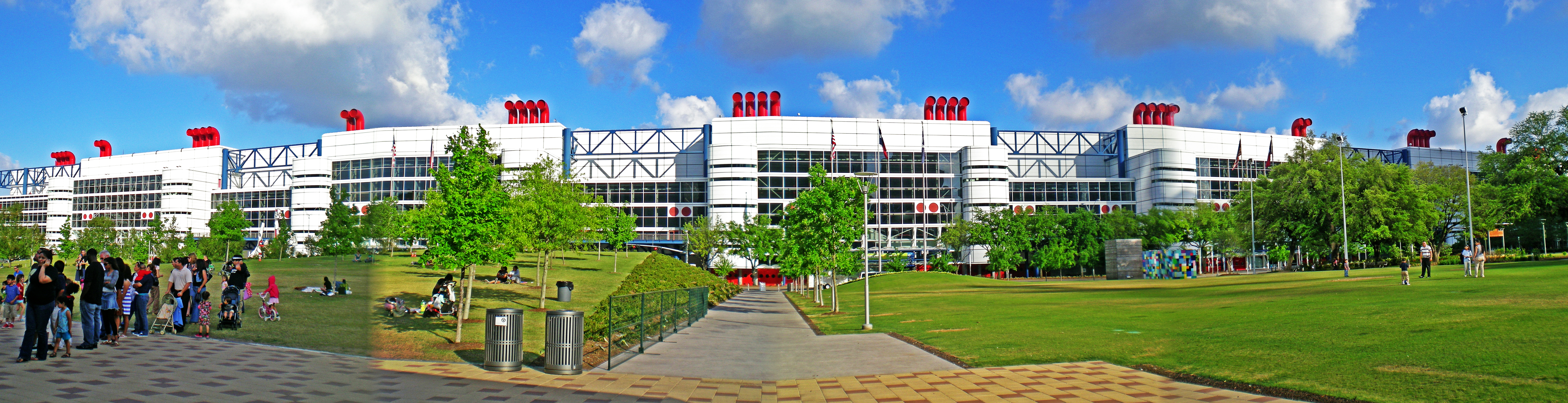 A view of the George R. Brown Convention Center from Discovery Green in Houston